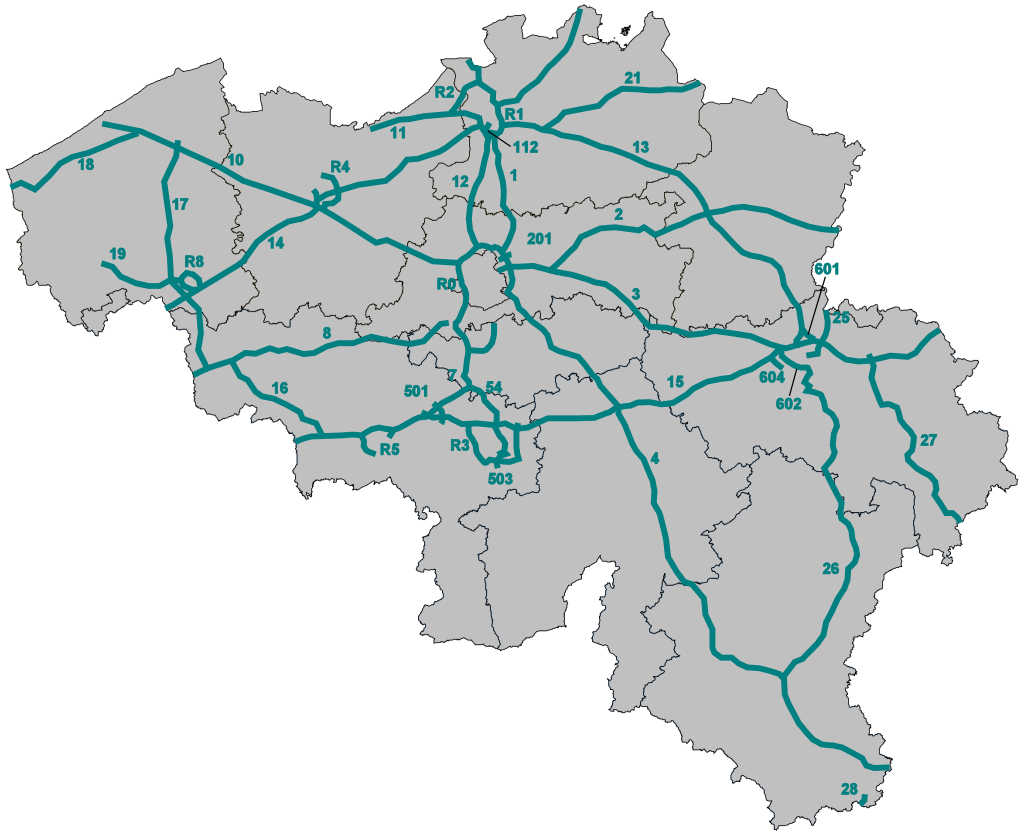 Overview of Belgian motorways